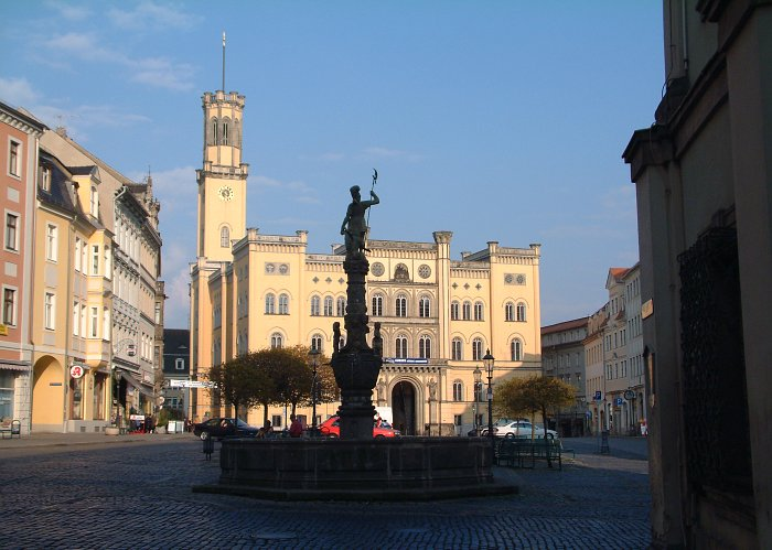 Town Hall Zittau, Saxony, Germany